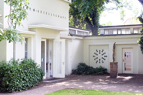 Arne Rautenberg Visual Poetry - Schriftinstallation in der Overbekgesellschaft 2012